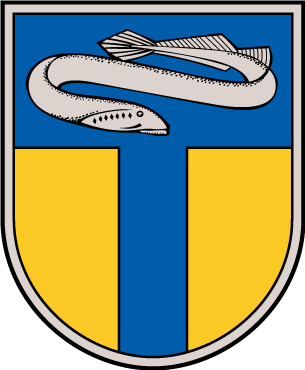 Coat of arms of Carnikavas novads, Latvia